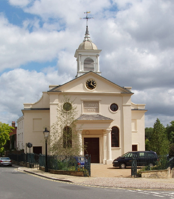 St John's parish church, Downshire Hill, Hampstead, London NW3, seen from the southwest